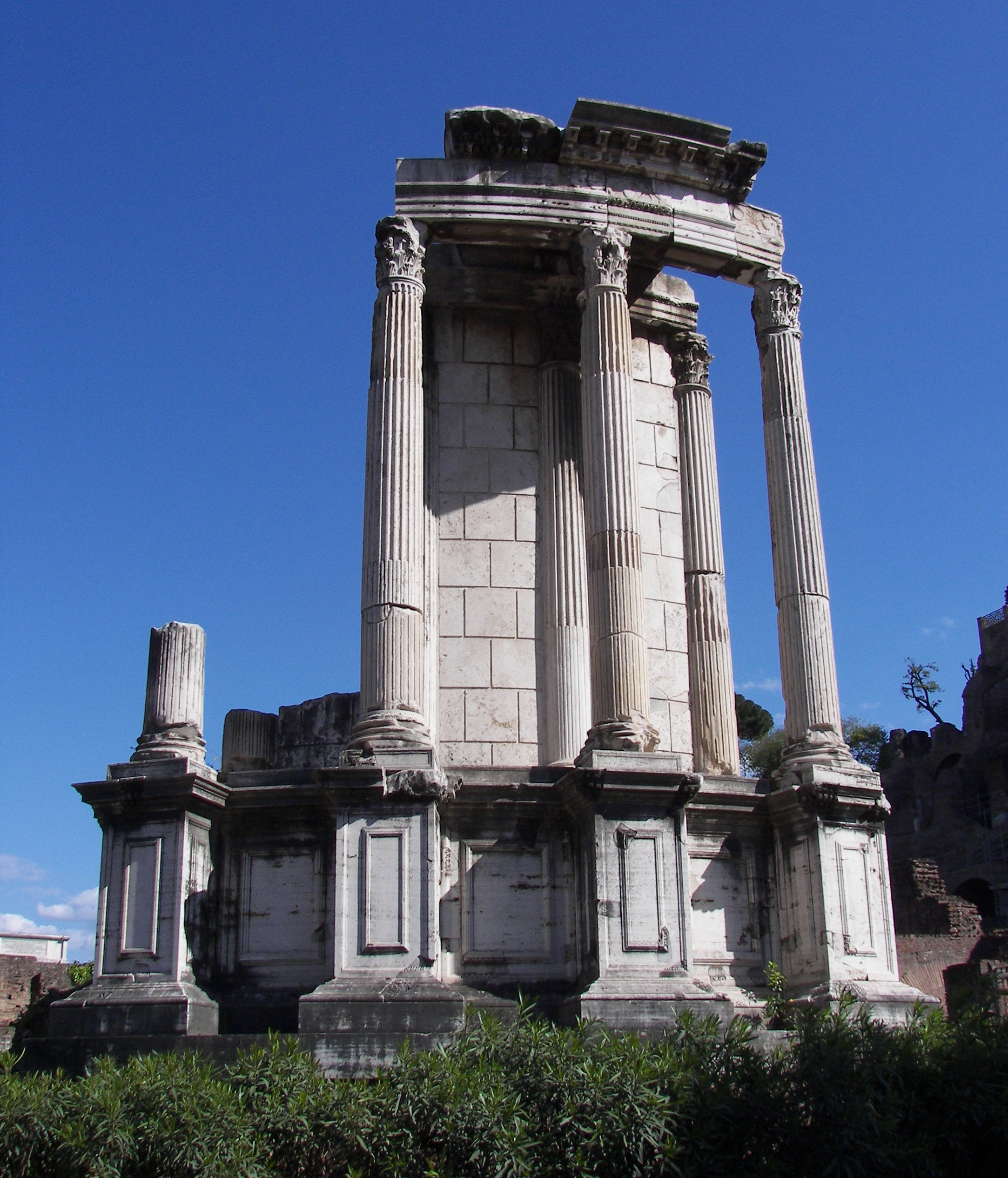 Temple of Vesta in the Forum Romanum in Rome.